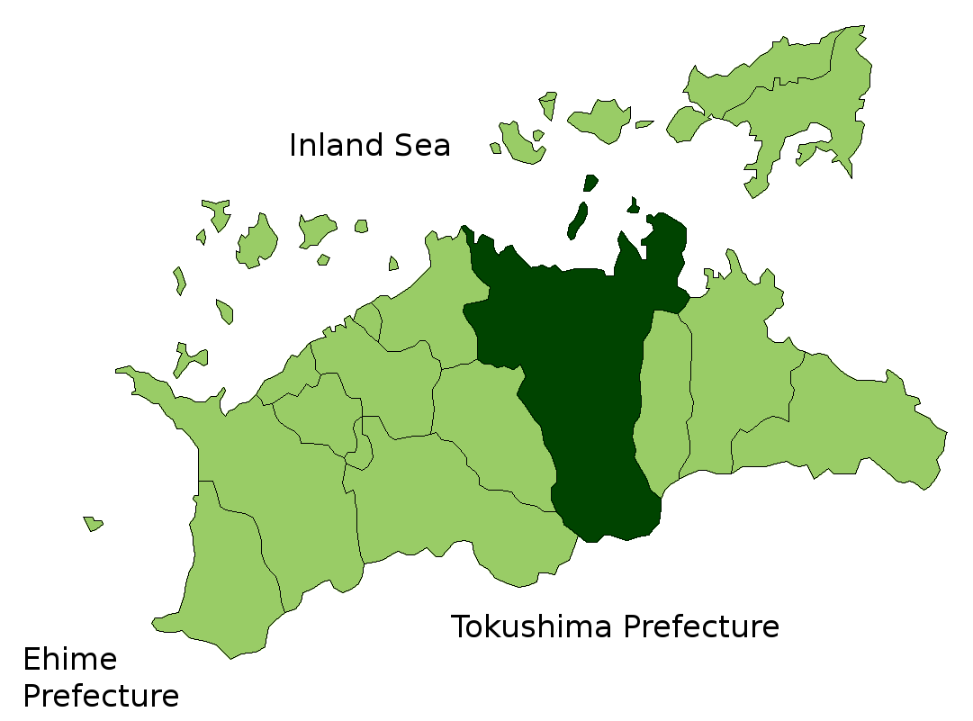 Map of Kagawa Prefecture highlighting Takamatsu city. Borders of map as of October, 2006. (blank map used from [1]) See also Image:KagawaMapCurrent.png